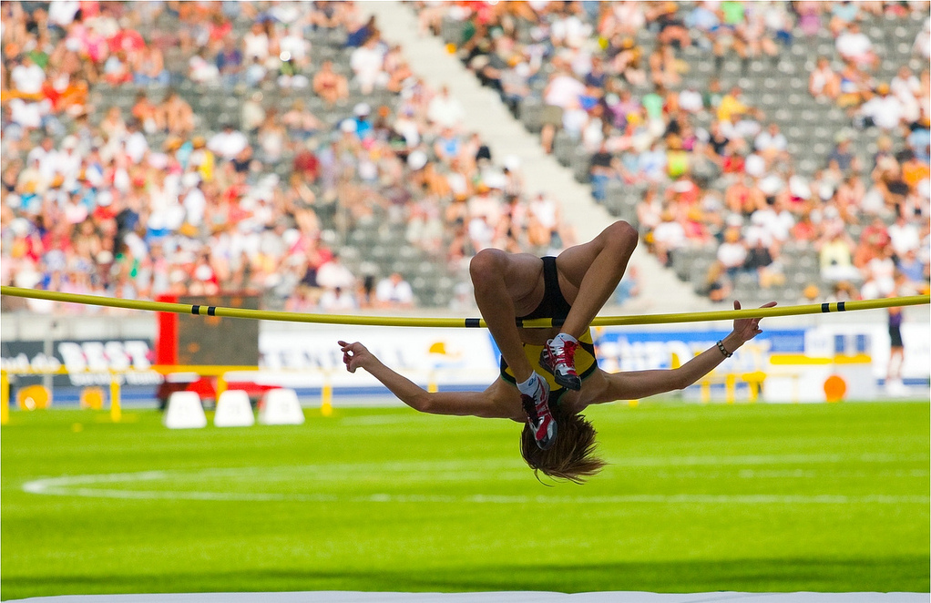 Antonietta Di Martino in Berlin (2010)